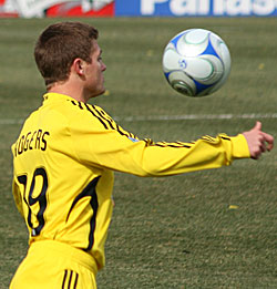 Robbie Rogers of the Columbus Crew photographed during the first half of play of a game that took place at Columbus Crew Stadium, on March 29, 2008 vs Toronto FC.